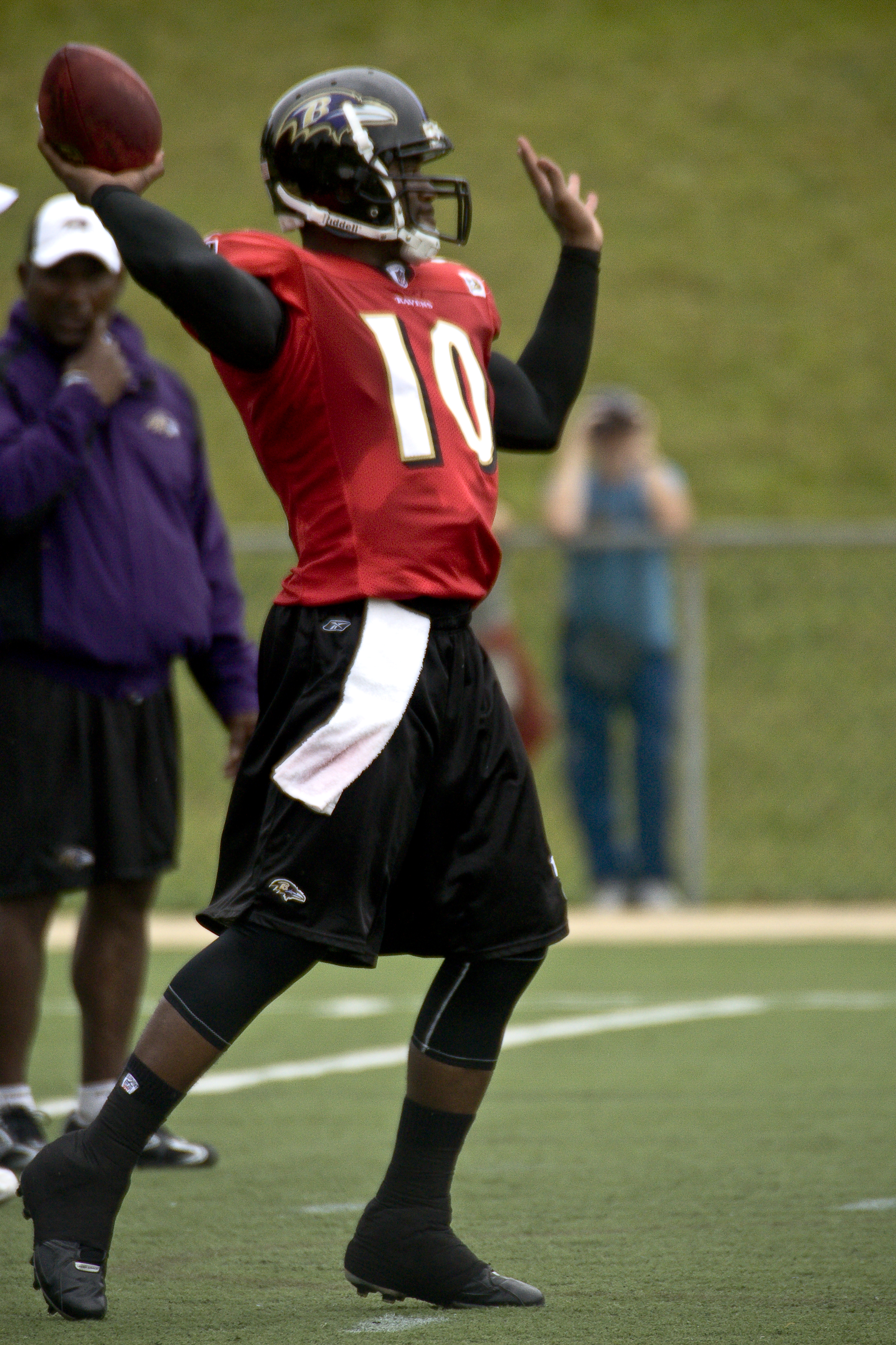 Ravens Training Camp July 23rd